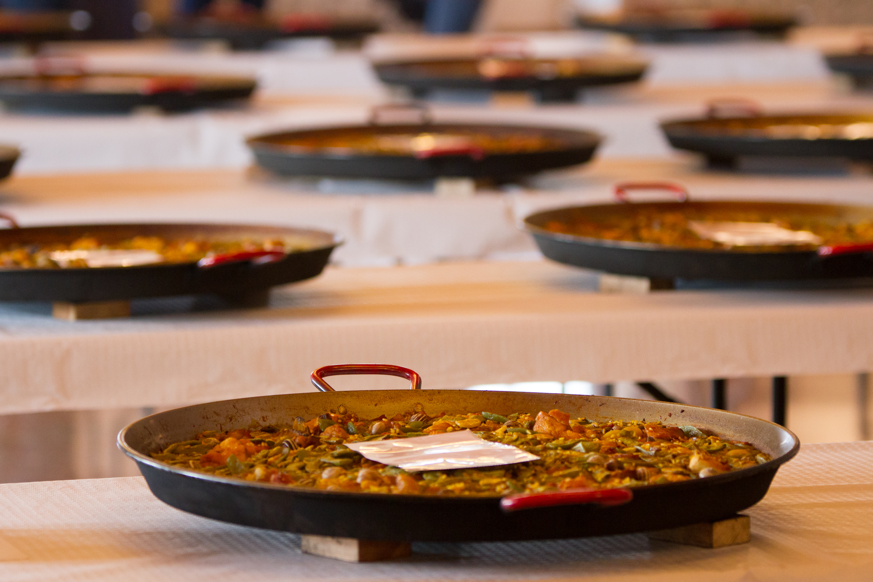 56th International Paella Contest of Sueca, 2016.